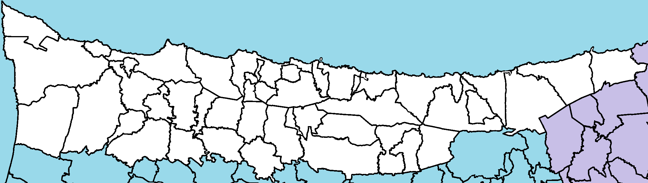 Kyrenia District (de jure).